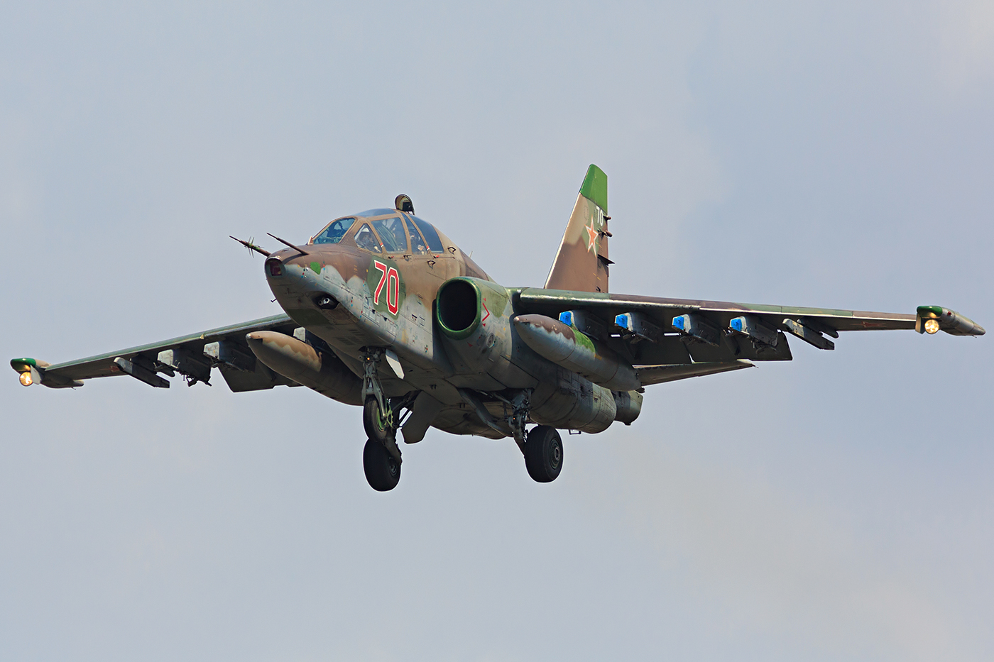 Sukhoi Su-25 of the Russian Air Force landing at Vladivostok